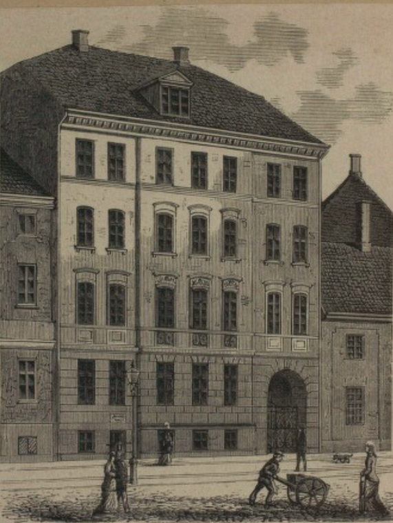 The building where Oehlenschlæger died in the ground floor in Amaliegade in Copenhagen, Denmark